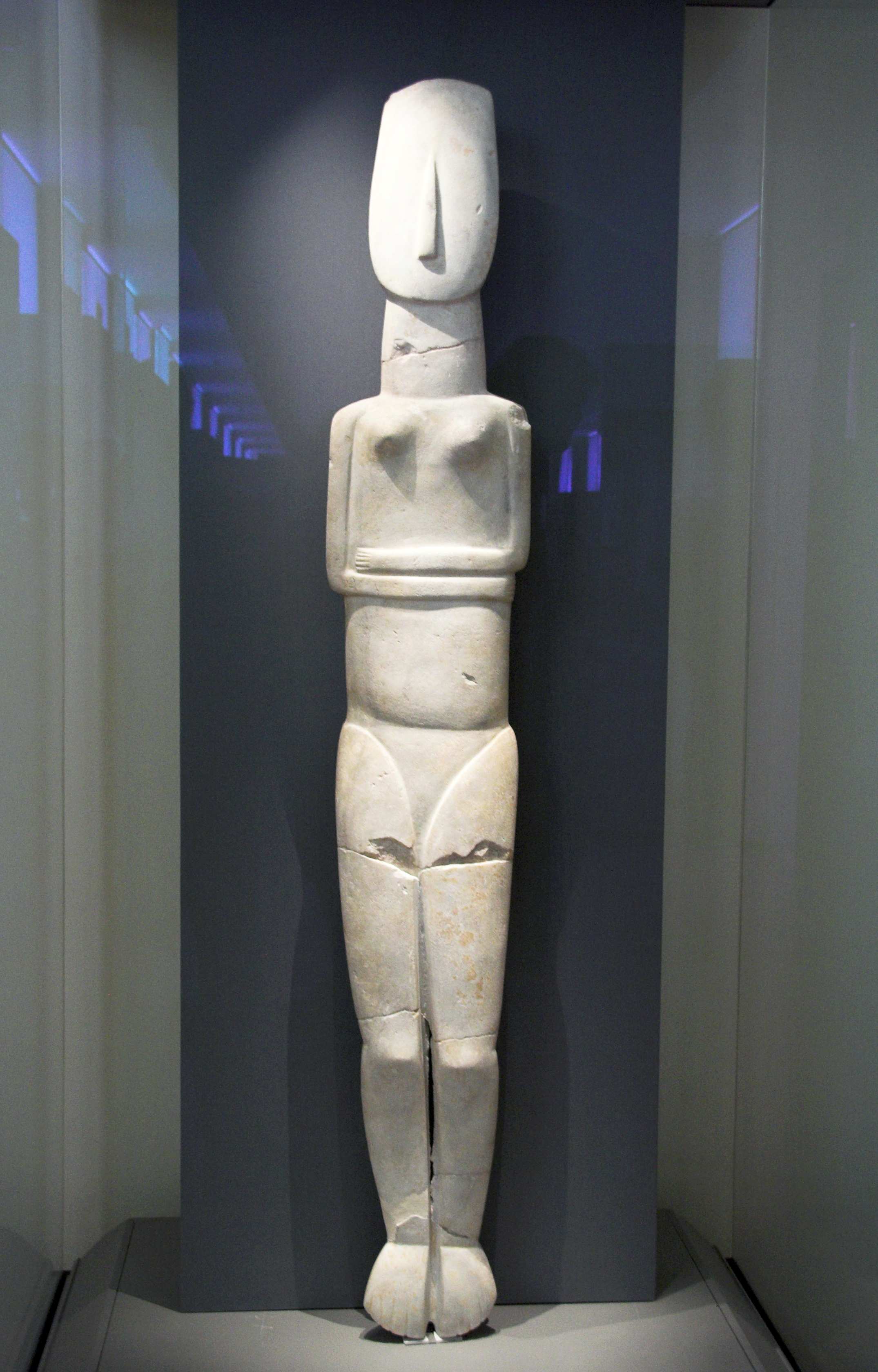 Cycladic idol, one of the biggest, female figurine, the canonical type, Spedos variety, Keros-Syros culture, height 152 cm, marble. Found on Amorgos. Cycladic Early Bronze Age (EC II), 2800-2300 BC. National Archaeological Museum of Athens, N 3978.